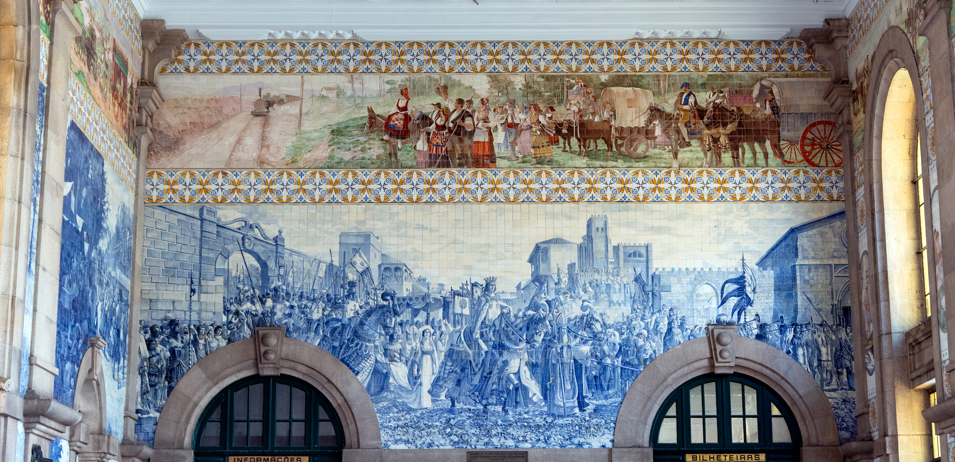 Azuelo and mural, São Bento railway station, Porto, Portugal